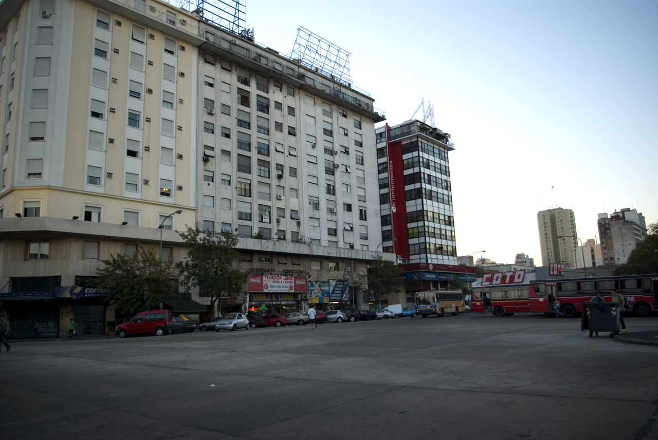 Facing Constitucion Plaza, Buenos Aires. In front of the estacion constitucion is a giant square where hundred and hundreds of buses come to pick up and drop off commuters. This was a holiday so it was pretty empty.